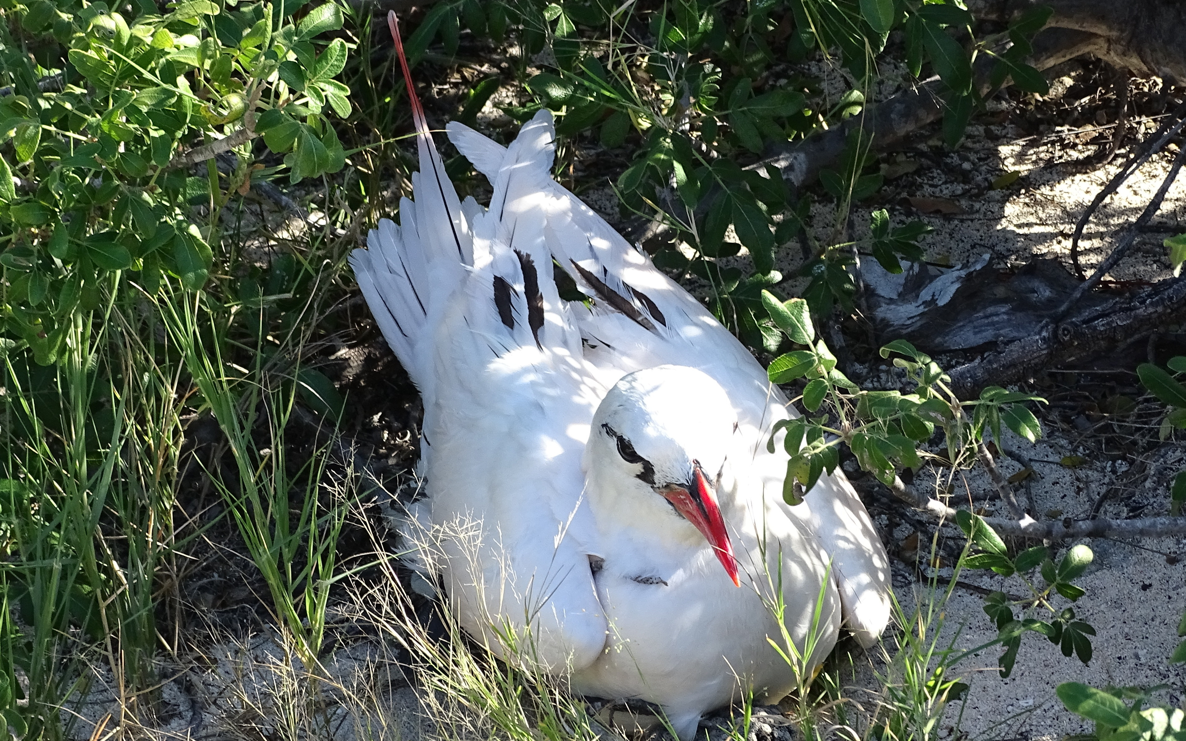 Red Tailed tropicbird (Phaethon rubricauda), possibly on a nest, Nosy Ve, Madagascar